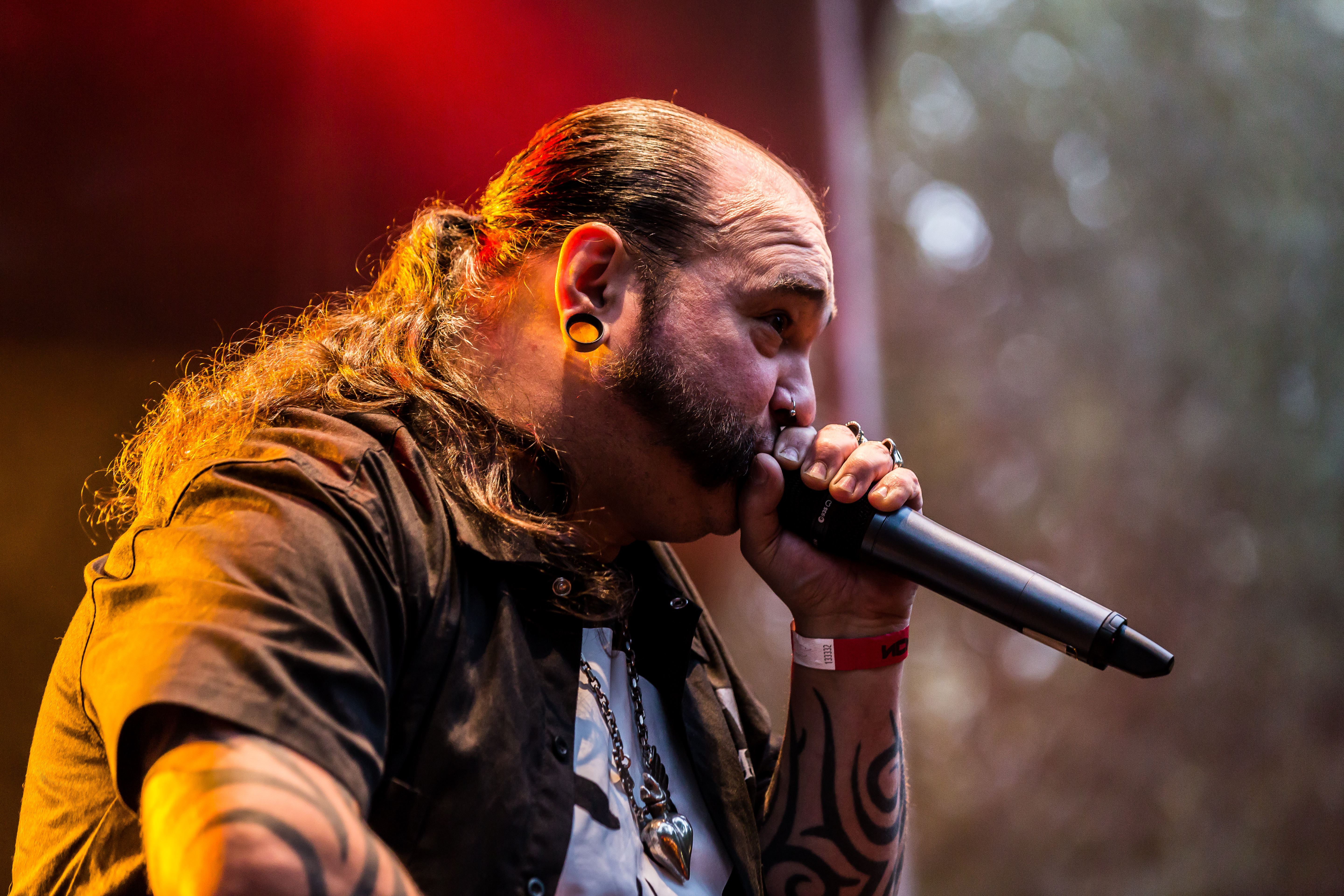 The German gothic metal band Crematory at the Nocturnal Culture Night 12 2017 in Deutzen/Germany.